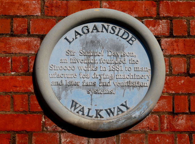 Sir Samuel Davison/Sirocco plaque, Belfast A plaque, on the Laganside Walkway, commemorating Sir Samuel Davison who founded the Sirocco Works 1409507 and 761581 (behind the wall).